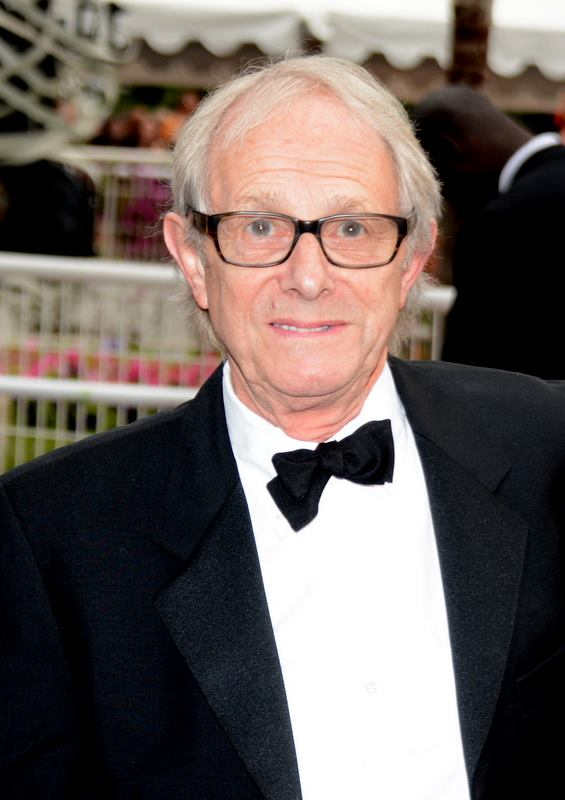 Ken Loach at the Cannes film festival